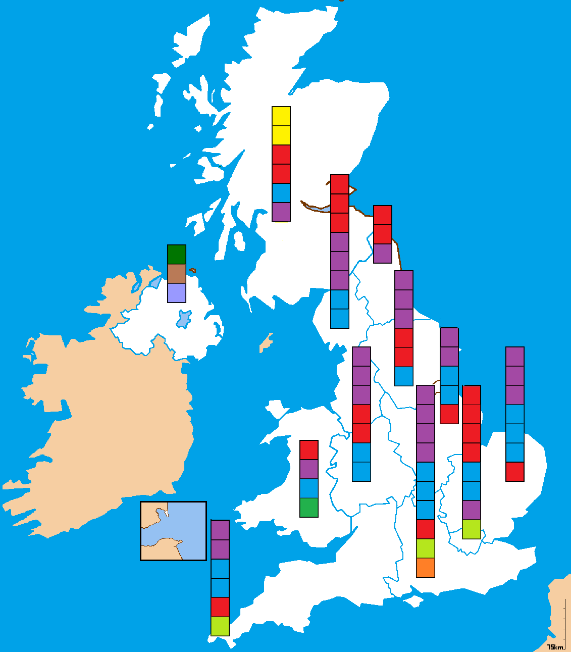 Results of the 2014 European Parliament election in the United Kingdom. Party colors are arranged in order of vote share per region with the highest-polling party at the top. Boxes represent individual seats.